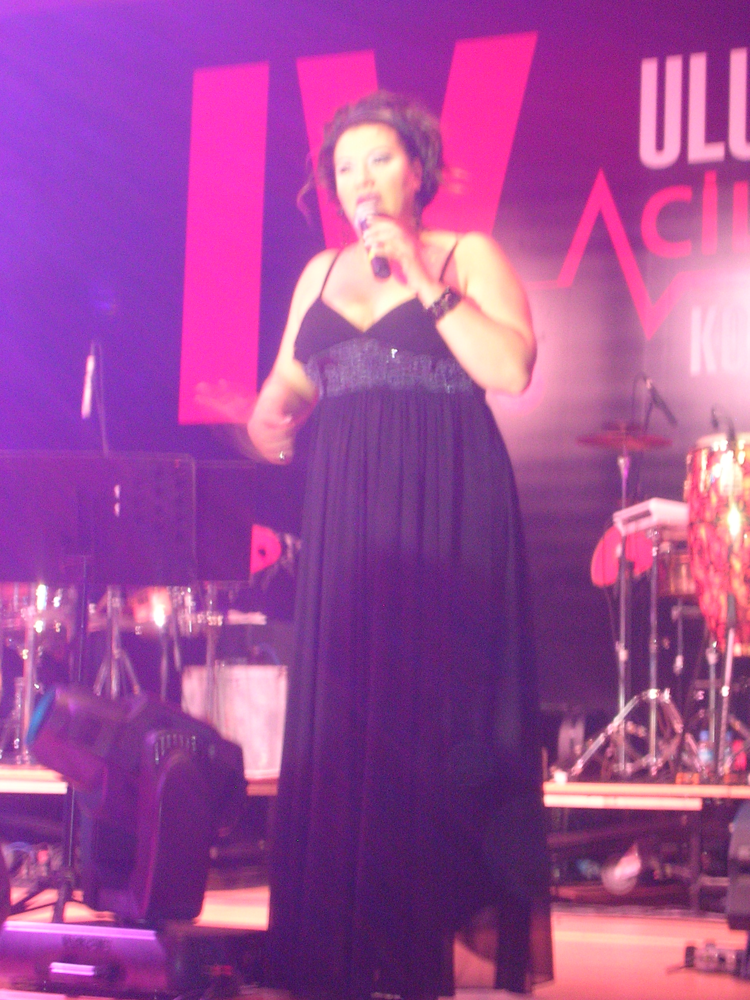 Işın karaca, Antalya 10 mayıs 2008